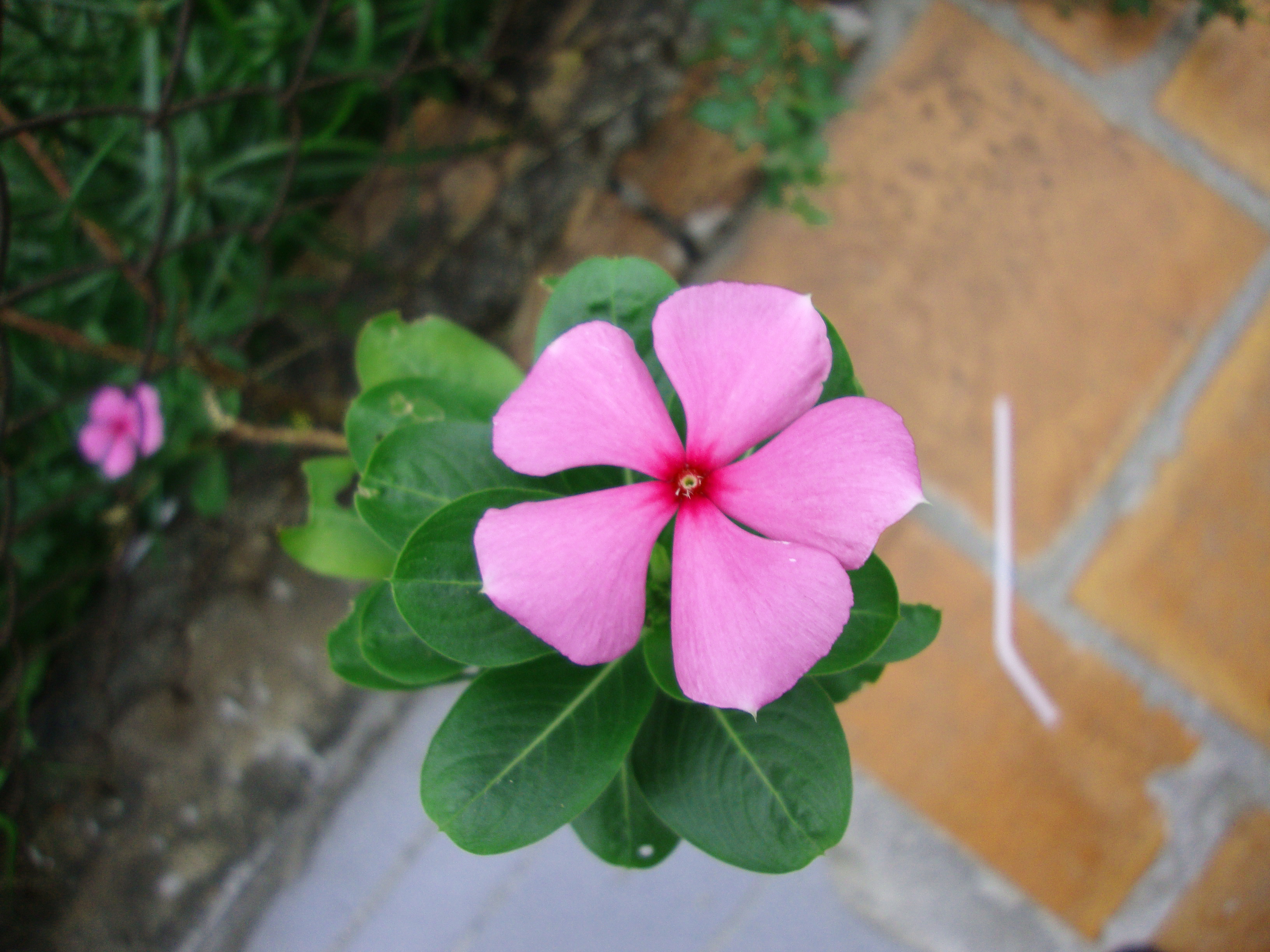 Catharanthus roseus (L.) G.Don, 1837